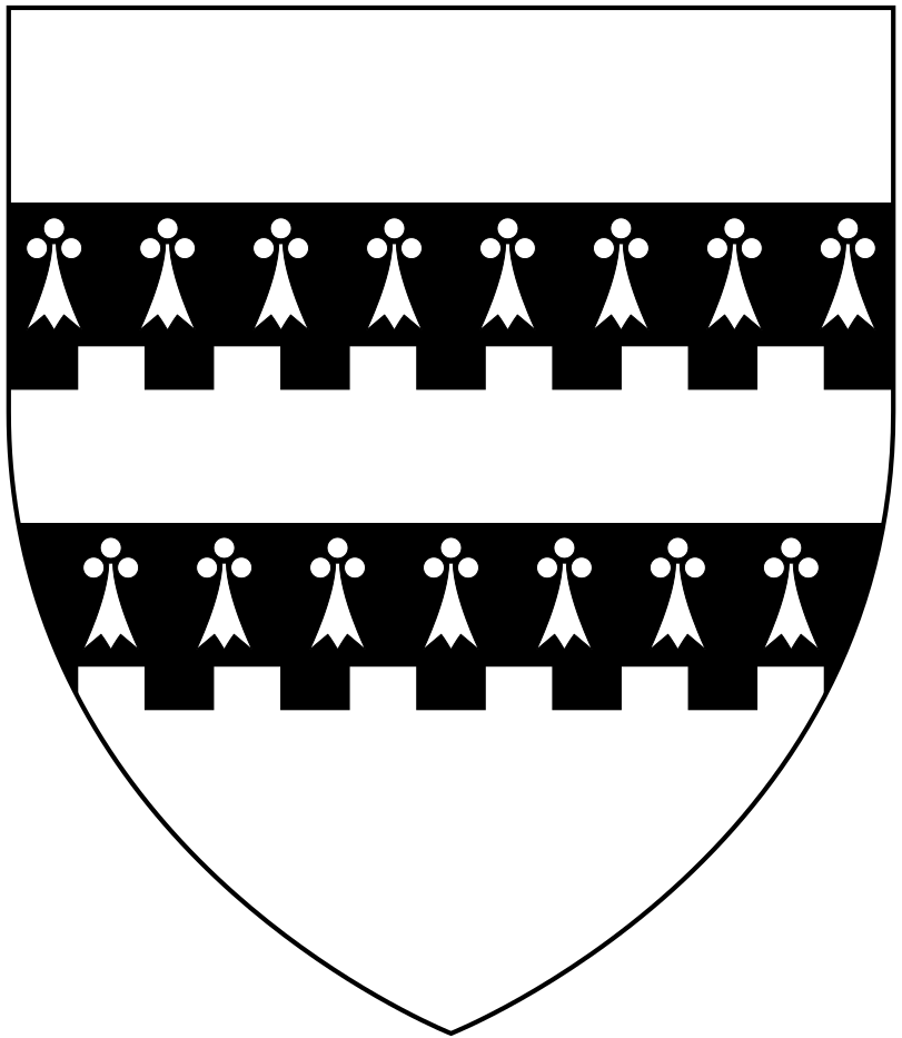 Arms of Burnby of Burnby in the parish of Bratton Clovelly, Devon: Argent, two bars counter-embattled ermines ((Vivian, Lt.Col. J.L., (Ed.) The Visitations of the County of Devon: Comprising the Heralds' Visitations of 1531, 1564 & 1620, Exeter, 1895, p.119) Blazoned differently by Pole as: Azure, two bars embattles ermine (Pole, Sir William (d.1635), Collections Towards a Description of the County of Devon, Sir John-William de la Pole (ed.), London, 1791, p.472)